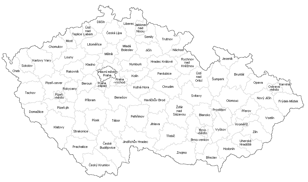 Map of czech districts (current borders since 2007)